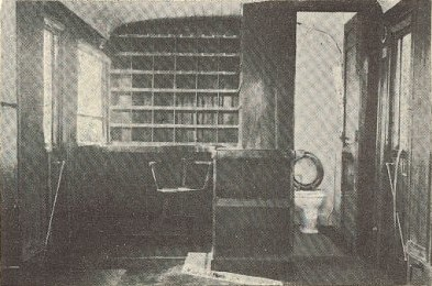 Interior of a travelling post office, integrated in a third class carriage, used since 1936 on the Vouga railway network, in Portugal. This photograph was published on the Gazeta dos Caminhos de Ferro magazine no. 1164, of the 16th June 1936, and scanned by the Hemeroteca Municipal de Lisboa.